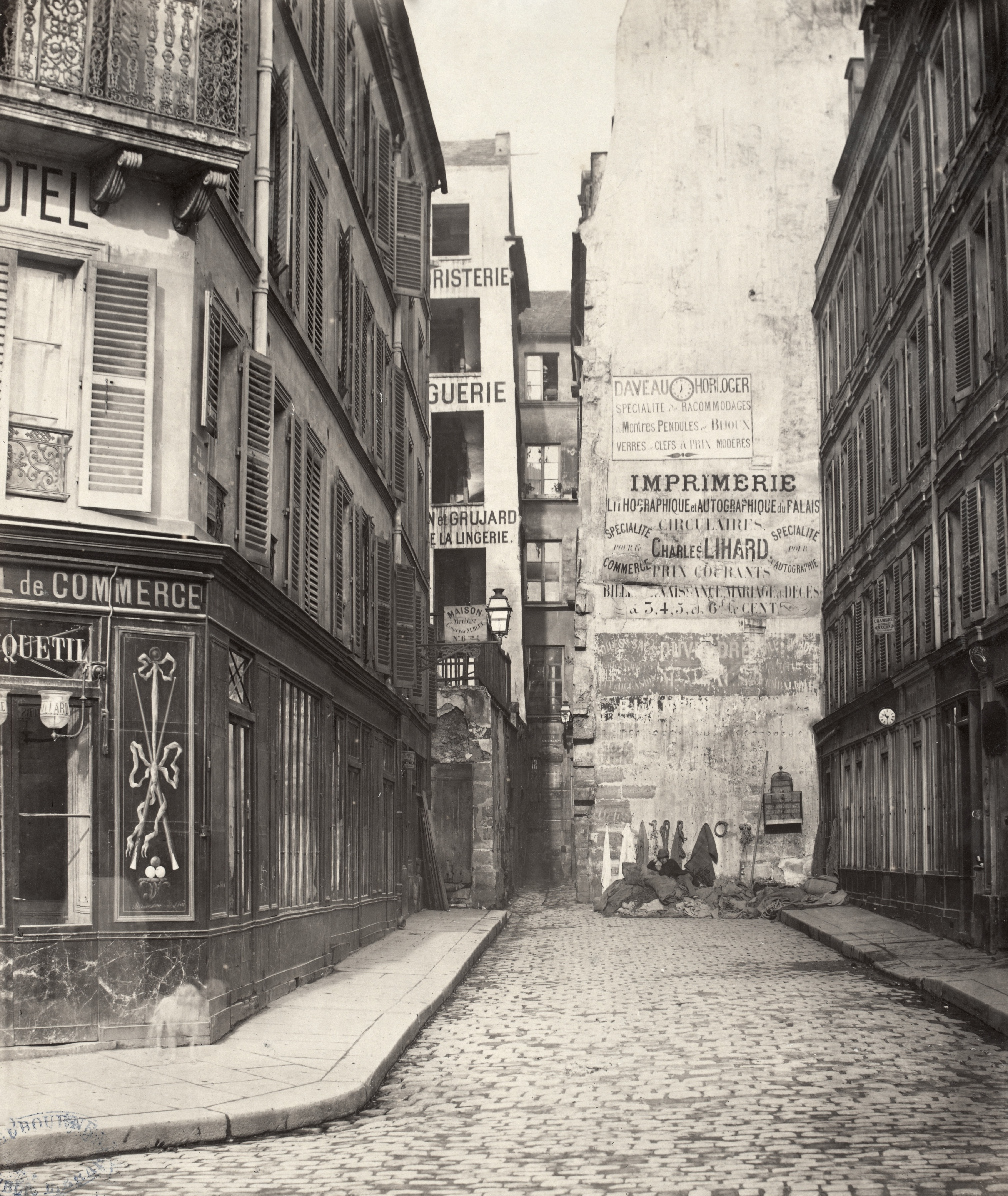 Looking along cobbled street with another street in left foreground, corner building on left Hote de Commerce, piles of cloth against wall at end of road, some coats or cloth hanging on hooks in wall, man lying on sacks.